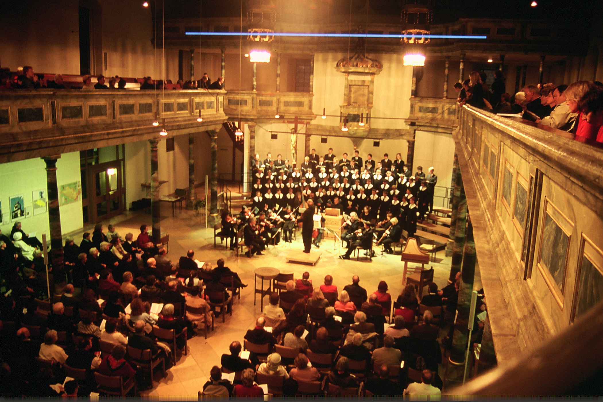 Goeppingen Town Church, Concert 2004